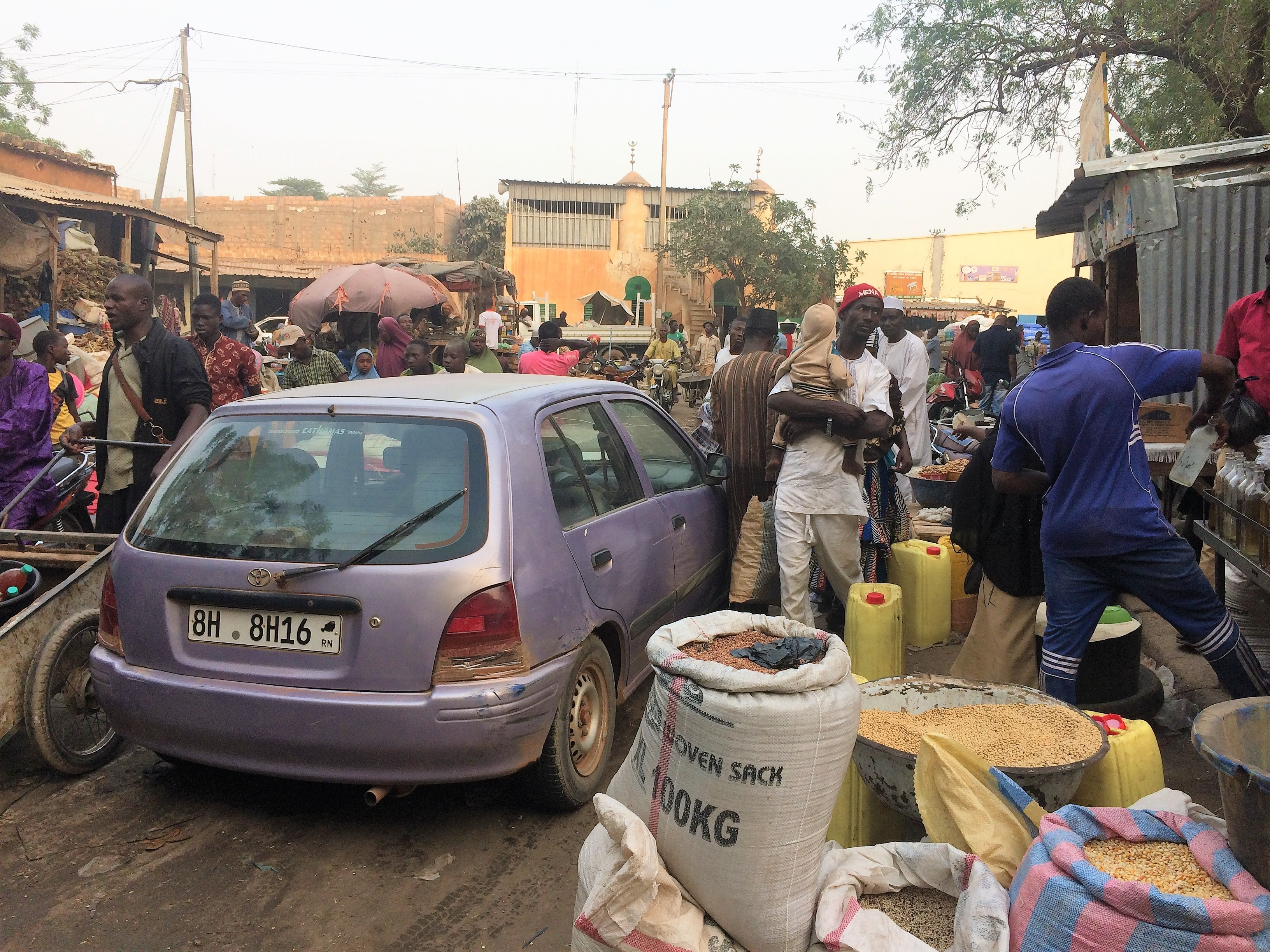 Scene in Rue NB-26 in Niamey (Petit Marché area, Niamey Bas neighborhood, Niger).